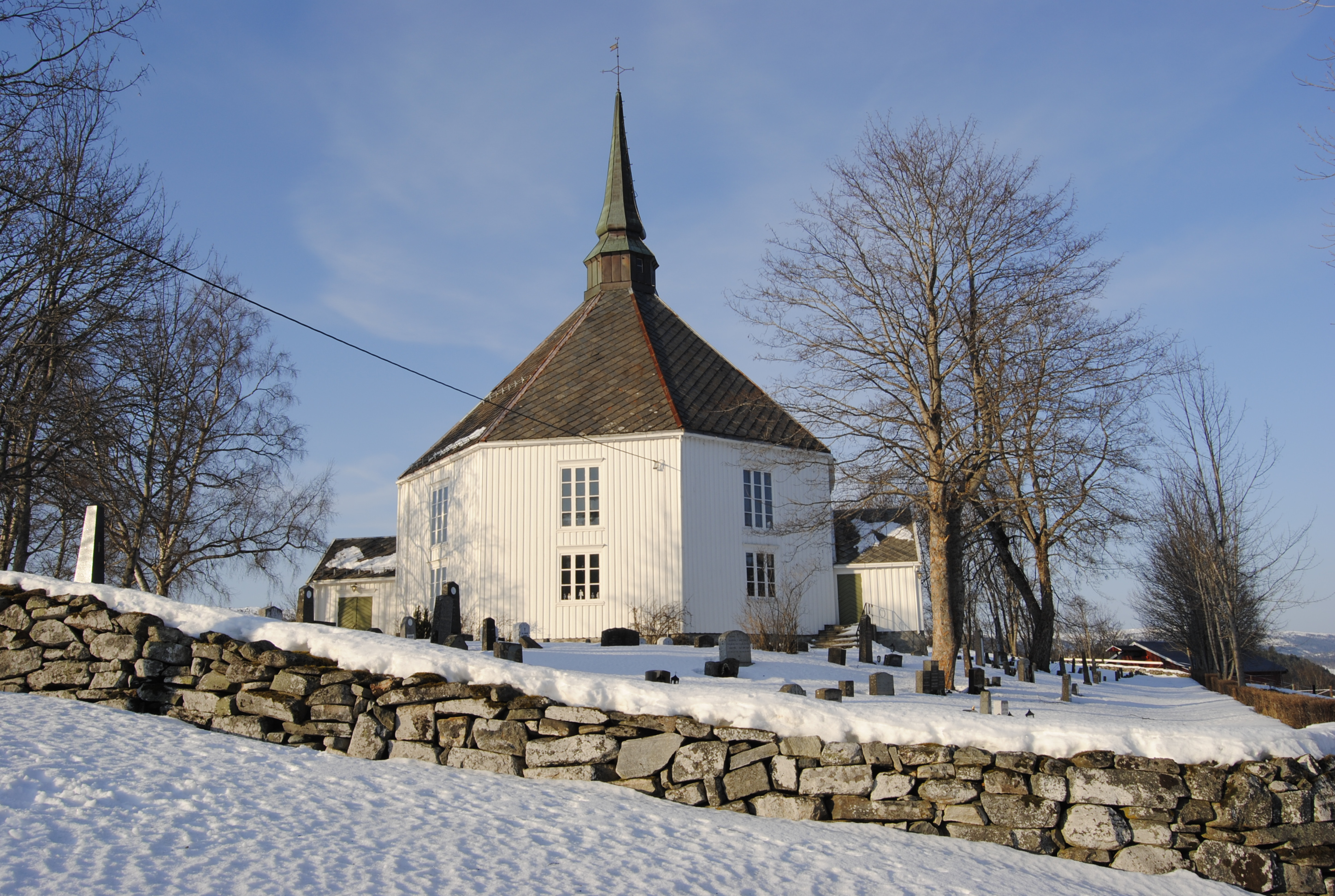 Hemne kirke. Foto: Glenn Thomas Nilsen